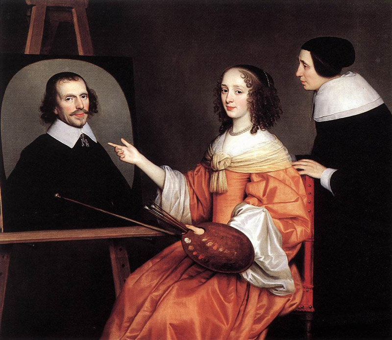 Margareta Maria points toward a portrait of her late father. Her mother is dressed in the black garments and cap of a widow.